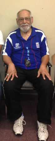 Syed Abid Ali in San Jose CA